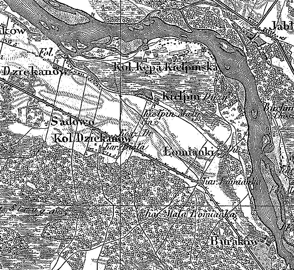 Łomianki and area, now Gmina Łomianki in Poland on map from 1839